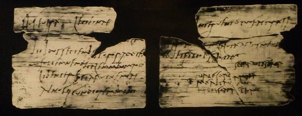 only words written by a Roman woman are at Vindalanda Uk. This is a pic of a photograph at Vindolanda. See version 1